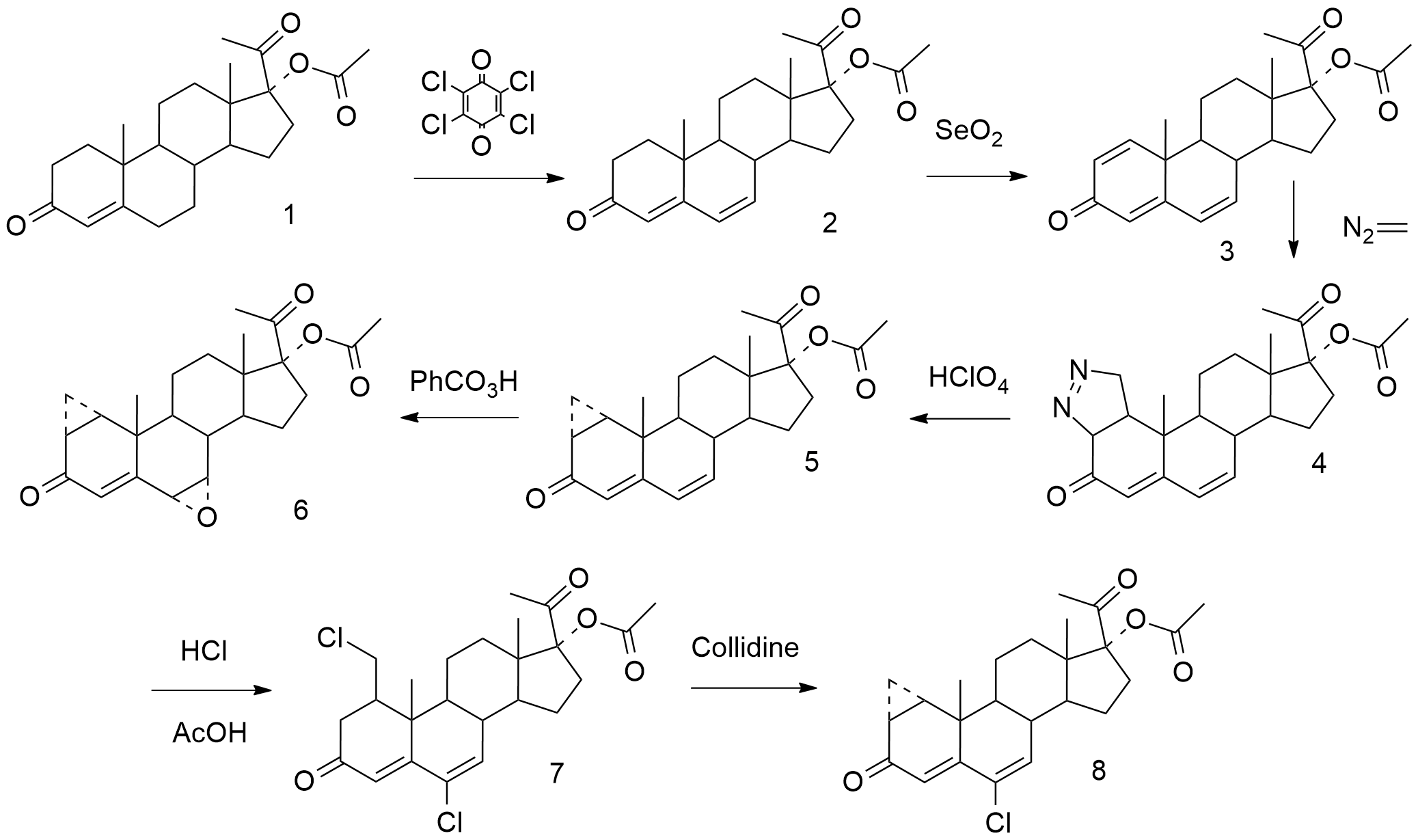 R. Wiechert, F. Neumann, Ger. Pat. 1.189.991 (1965). R. Wiechert, U.S. Pat. 3.234.093 (1966).